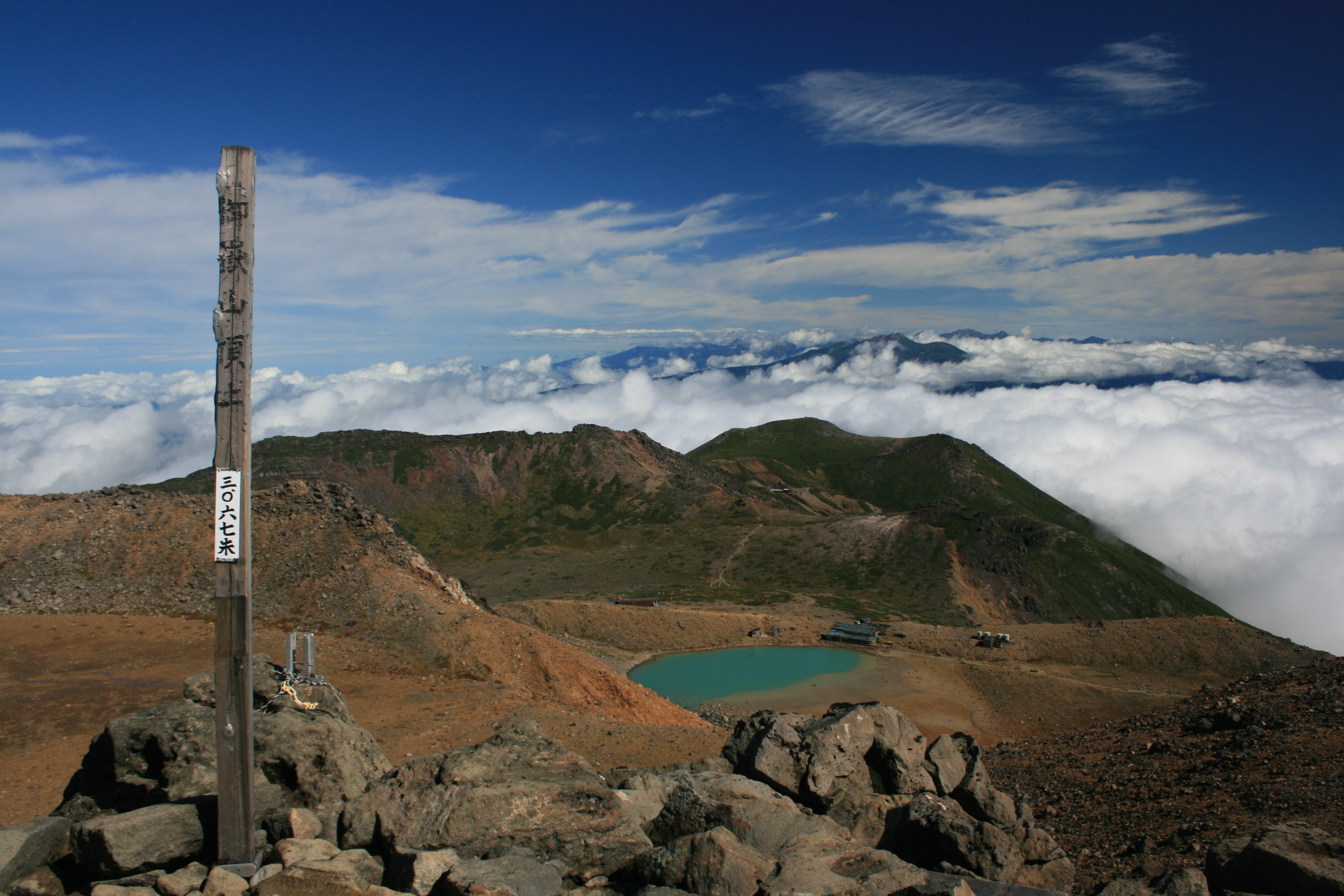 Hida Mountains from Mount Ontake, in Japan.